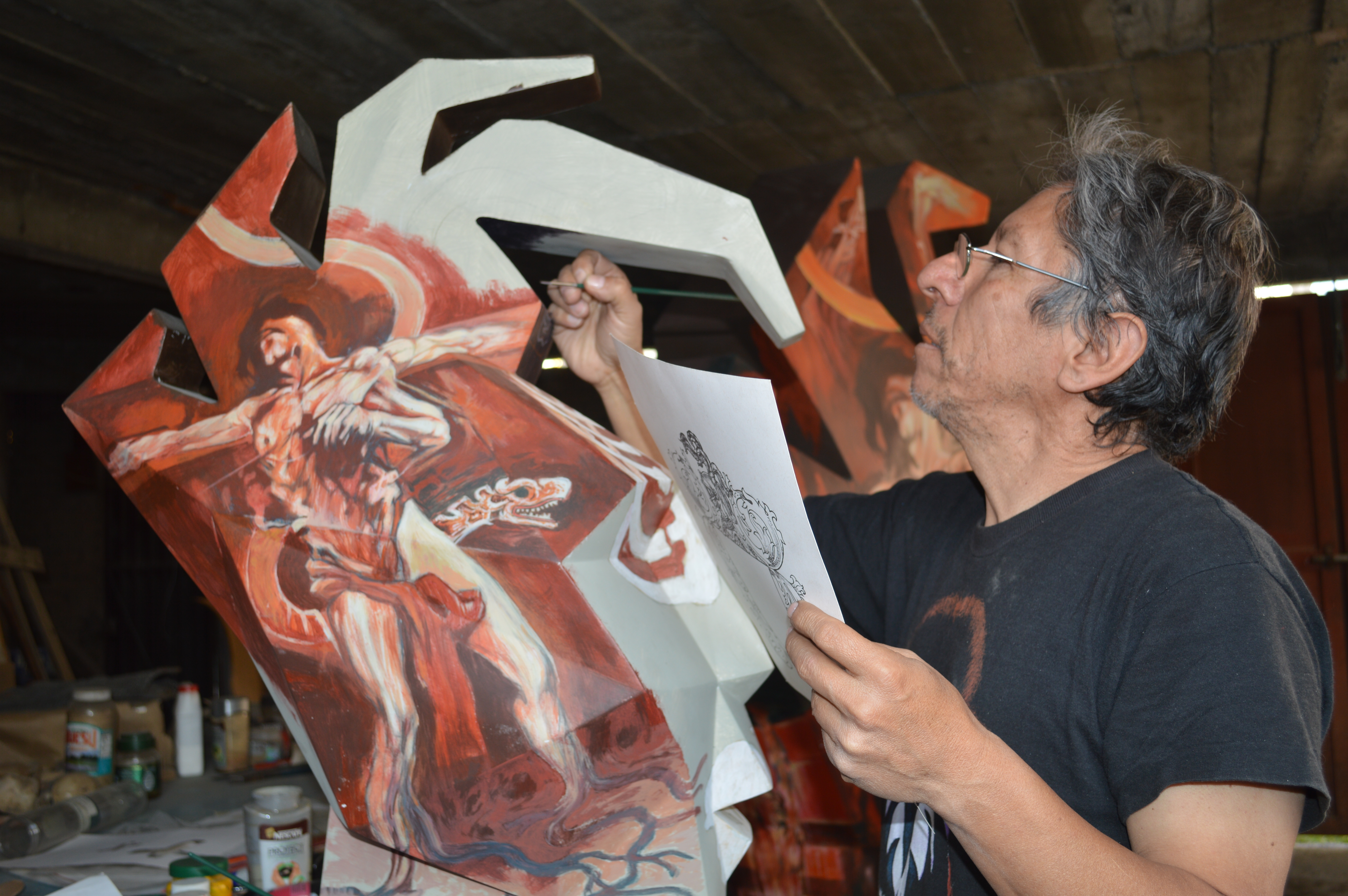 Antonio Garcia Vega [1] working on a pieces of a series in collaboration with his brother, Mauricio Garcia Vega in their workshop in Ciudad Nezahuacoyotl, Mexico